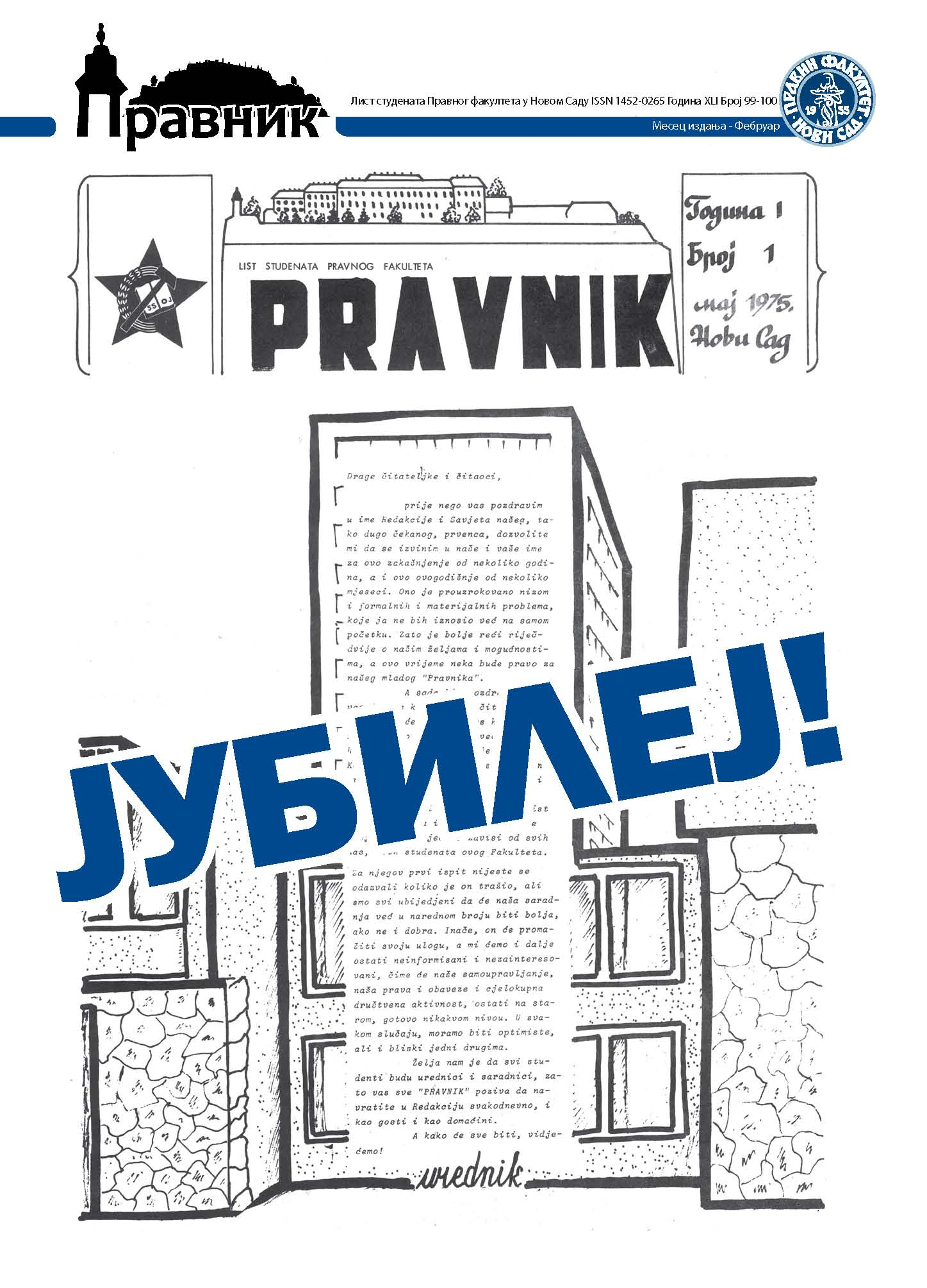 Students journal Pravnik, Association of Students of the University of Novi Sad, Serbia, jubilee edition